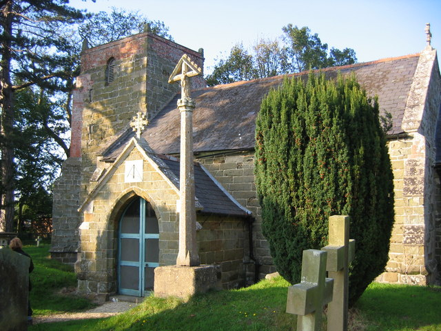 Nave, west tower and south porch of St Margaret's parish church, Somersby, Lincolnshire, seen form the southeast